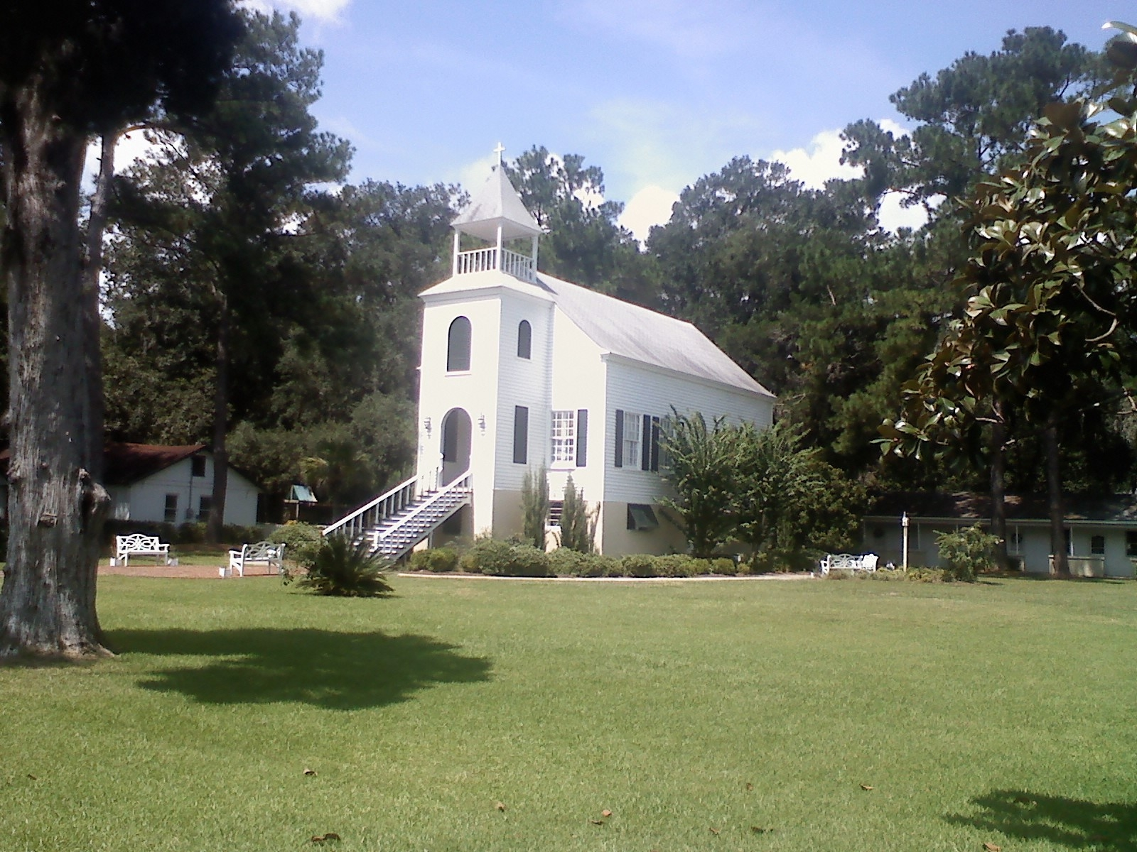 First Presbyterian Church (c.1808) — located in the St. Marys Historic District, St. Marys, Georgia.